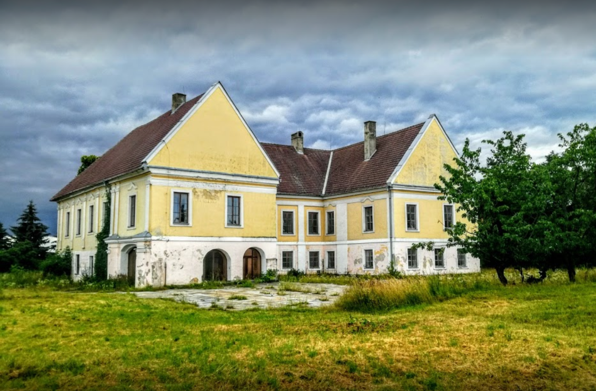 Historical Building in Castkovce Slovakia